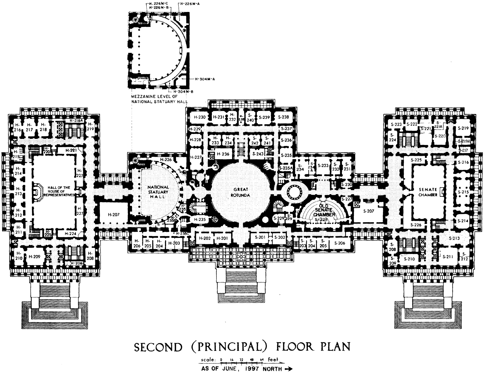 The second-floor plan of the United States Capitol, as it appeared in June 1997. Printed in the Official Congressional Directory for the 105th Congress.